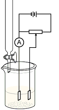 安培滴定法图示，自绘 Amperometric titration, self-made